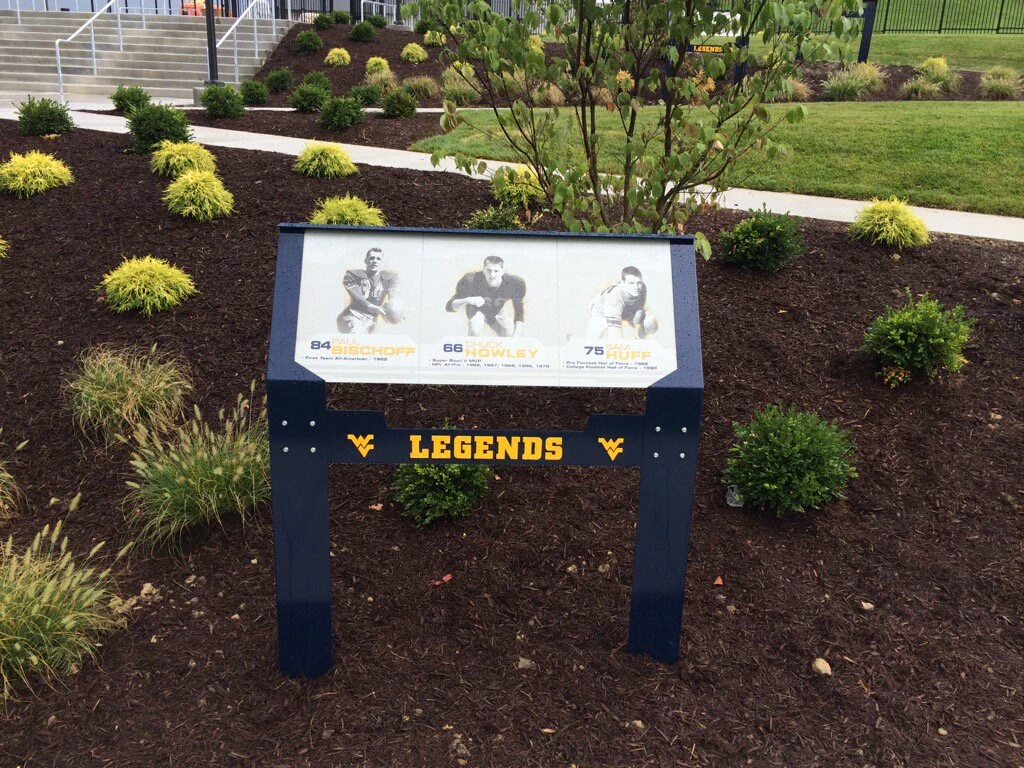 A new "Legends Park" was added to the north end of the stadium.